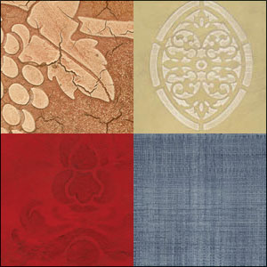 Finishes created by Sandra Kiss London of Faux Like a Pro